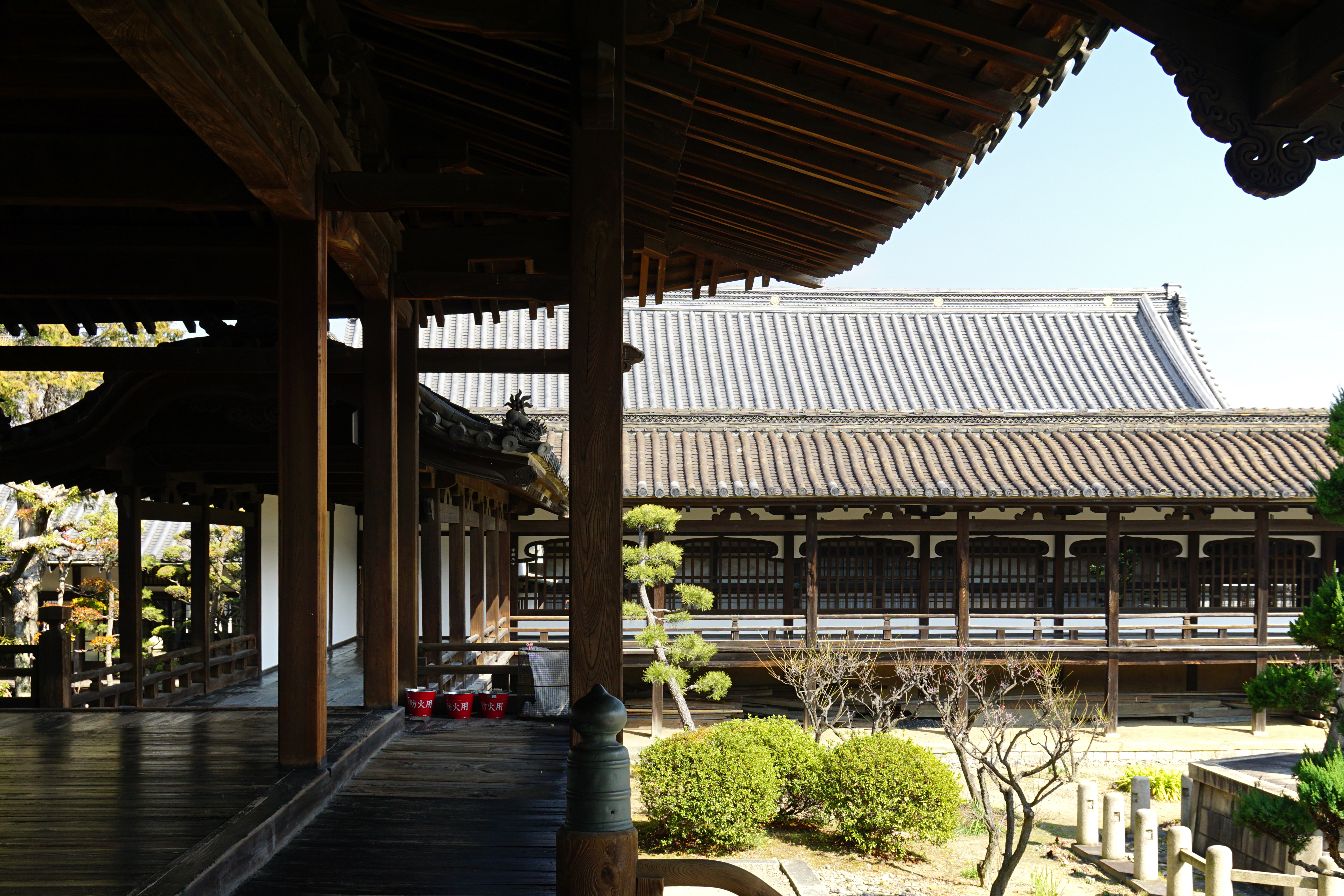 Kameyama Gobo Hontokuji in Himeji, Hyogo prefecture, Japan